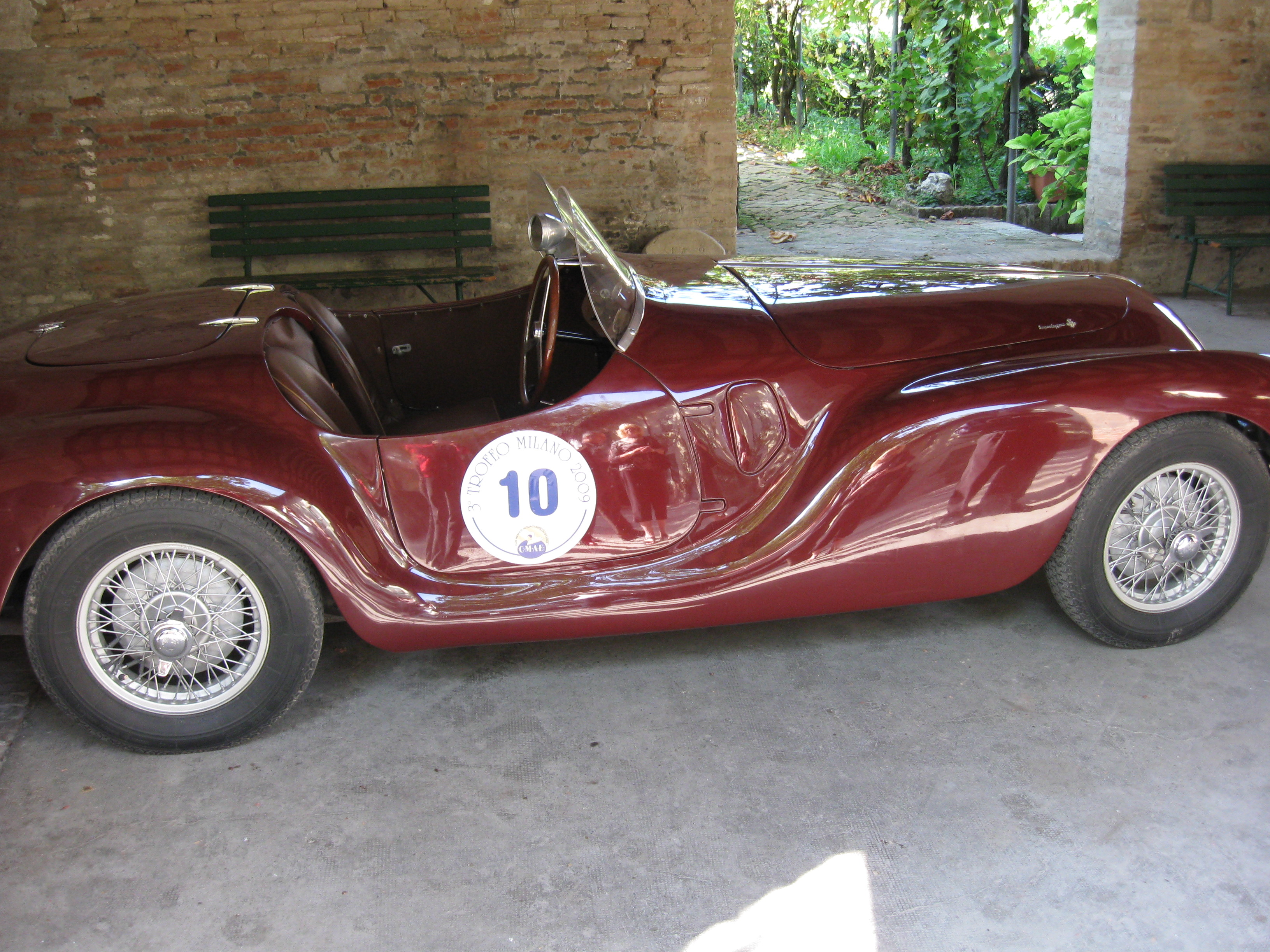 A side view of the Auto-Avio Costruzioni 815 (AAC 815)which was driven by Alberto Ascari in the 1940 Mille Miglia. This car is in the Mario Righini Collection and kept at the Panzano Castle in Italy